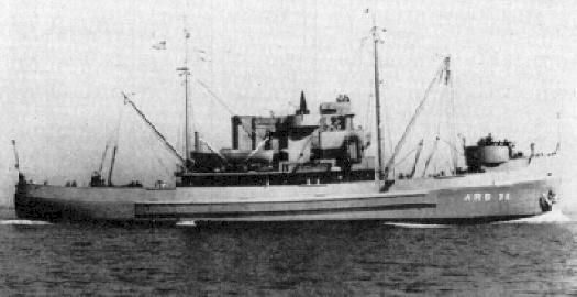 USS Swivel (ARS-36) underway, 28 September 1943, location unknown. US Navy photo